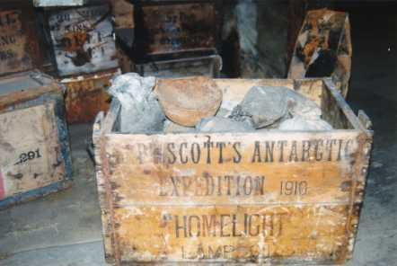 Inside Scott's Discovery Hut at McMurdo Station. My photo from Jan 1999.